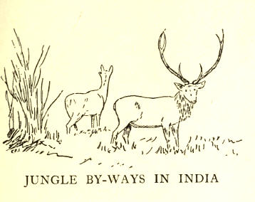 Stebbing, Jungle By-ways in India